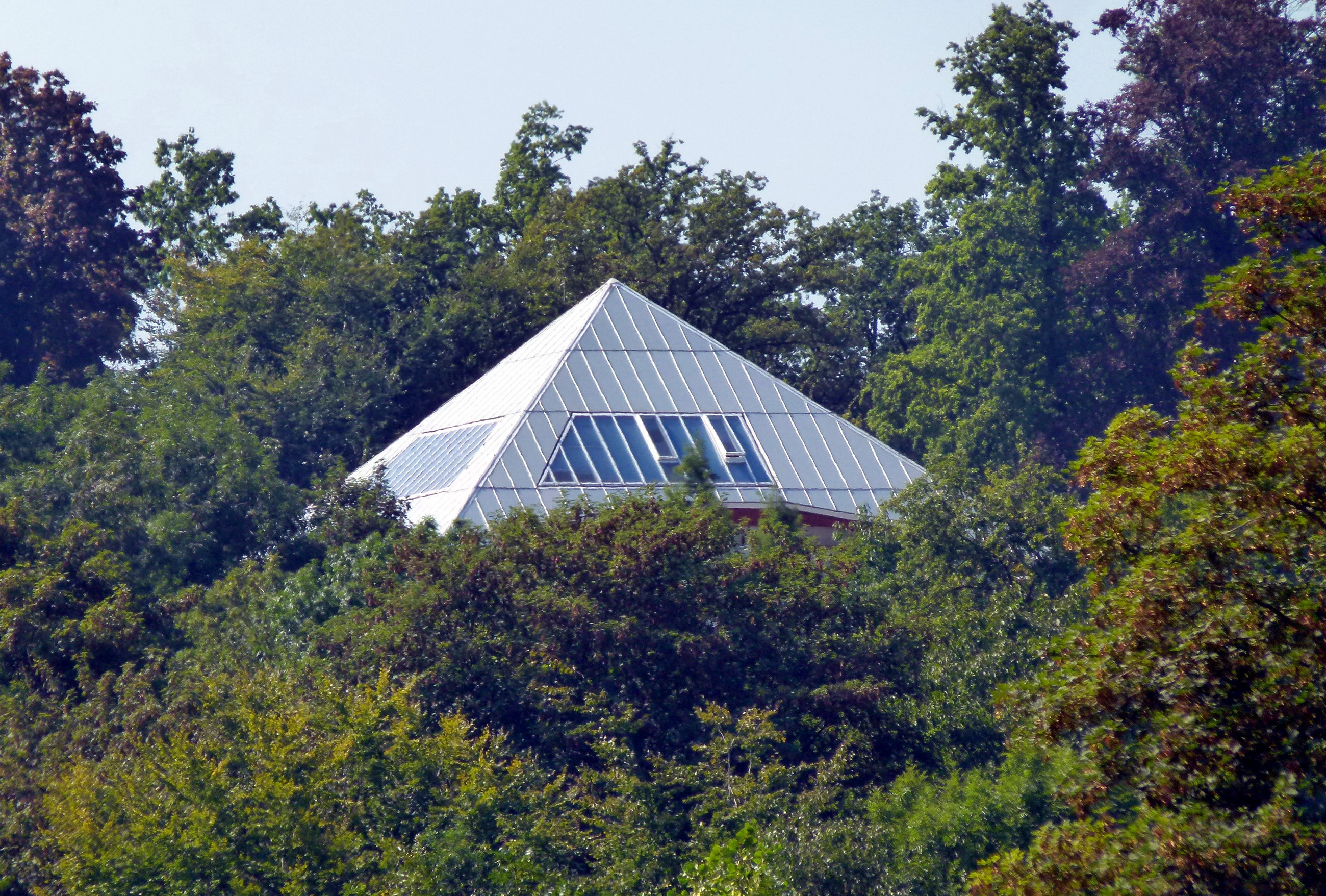 Valkenburg, Limburg, the Netherlands. View from Valkenburg Castle towards the West of Thermae 2000.